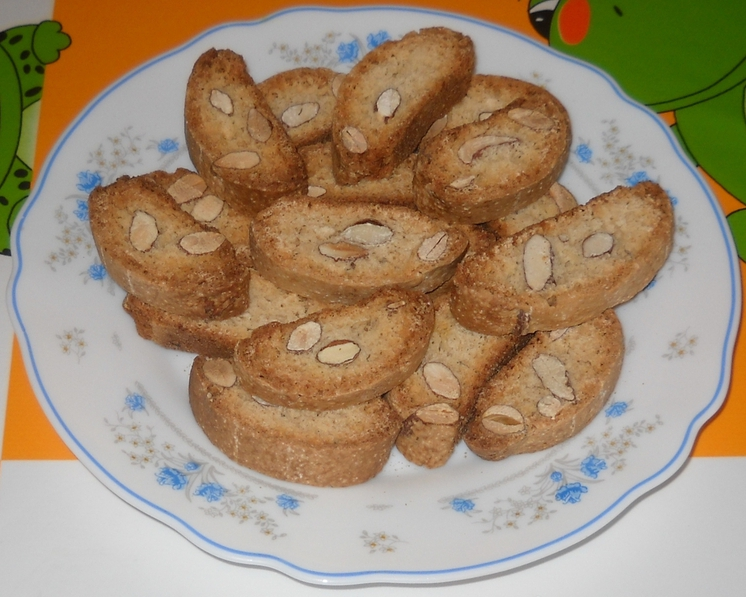 Carquinyolis d'Arenys (some typical catalan biscuits)